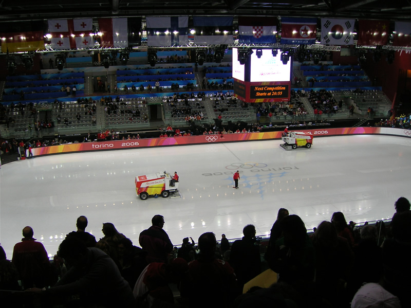 Palazzo a Vela at Winter Olympics 2006.